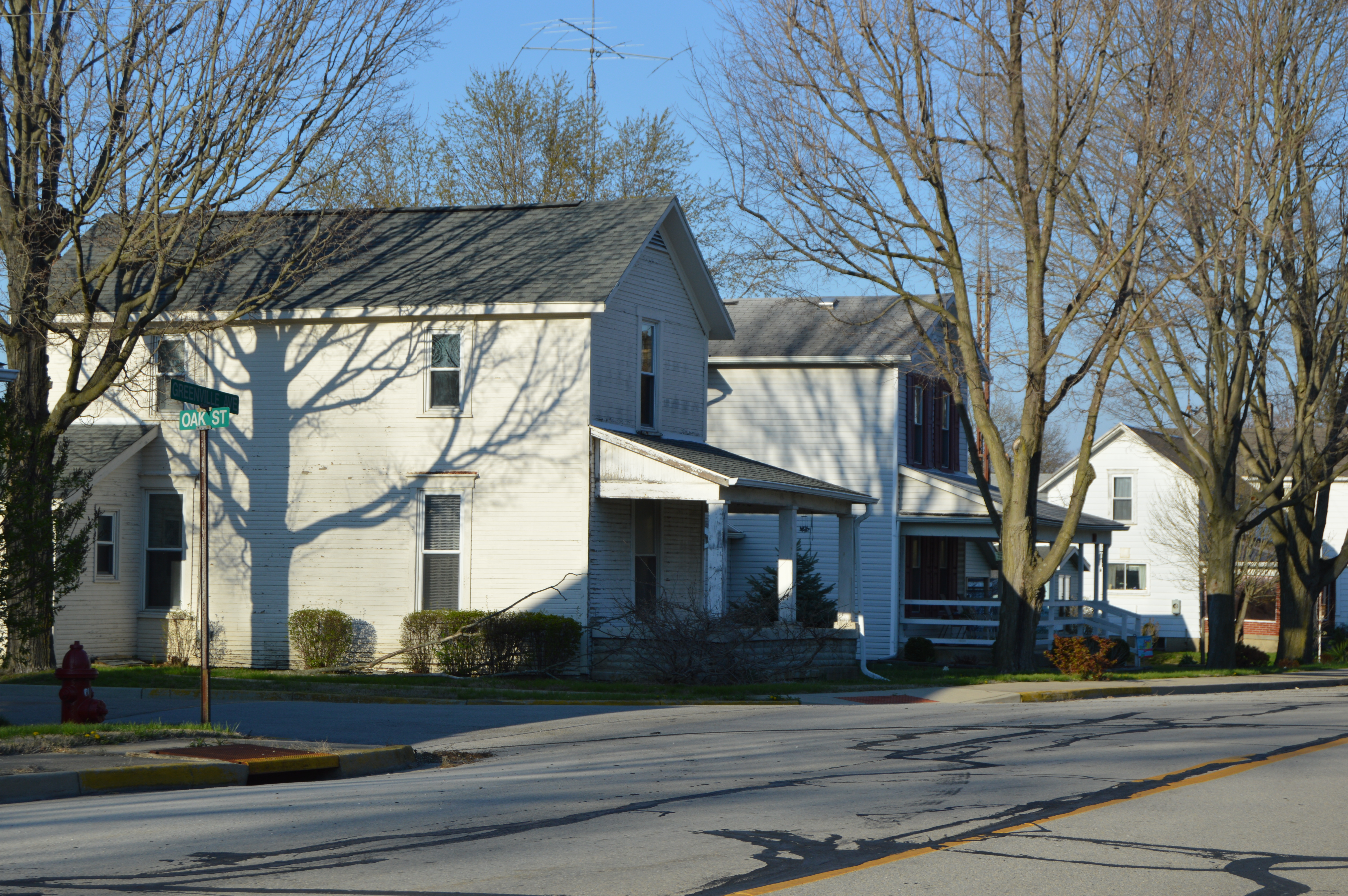 Houses on the northern side of Greenville Avenue (State Route 55) east of Oak Street in Ludlow Falls, Ohio, United States.